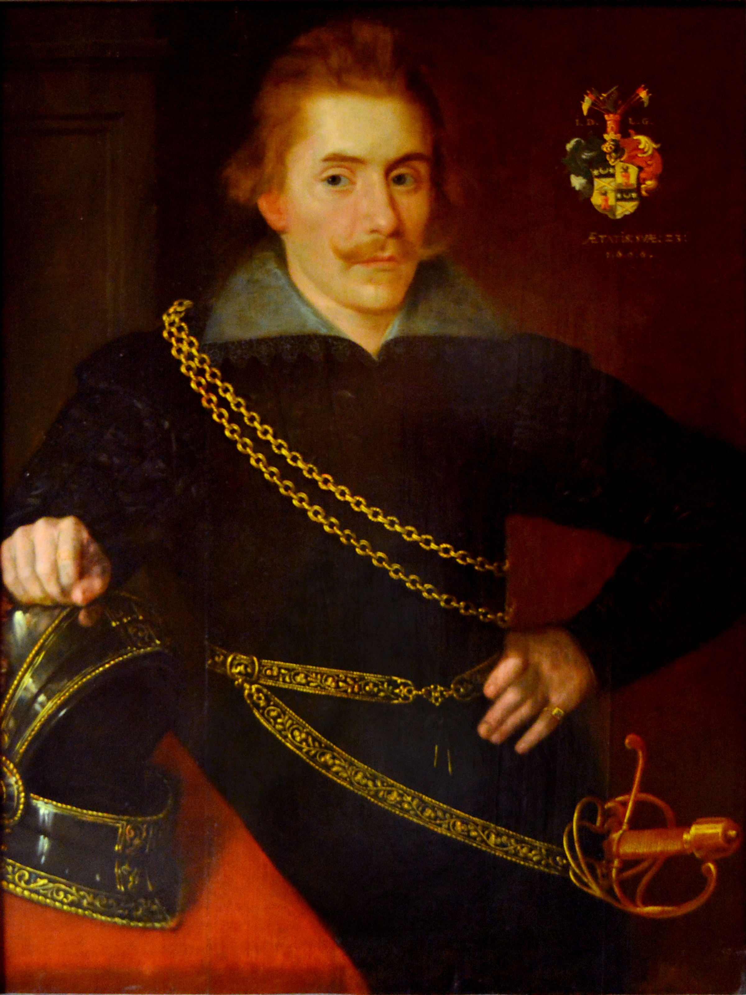 Portrait of Jakob Pontusson De la Gardie, Swedish